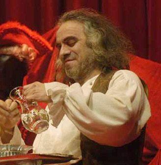 Photo of João Paulo Costa as Sganarelle in D. Juan of Moliére(2005).(The inclusion of this photo in Wikipedia was authorized by João Paulo Costa of the Teatro do Bolhão)